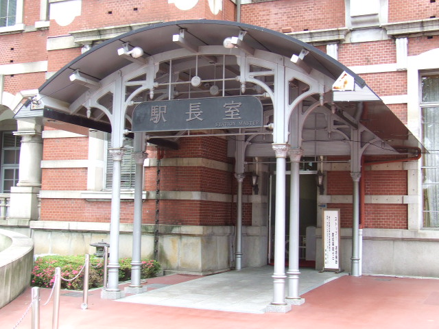 Entrance of〝Tokyo Stationmaster's Room〟, Chiyoda, Tokyo, Japan